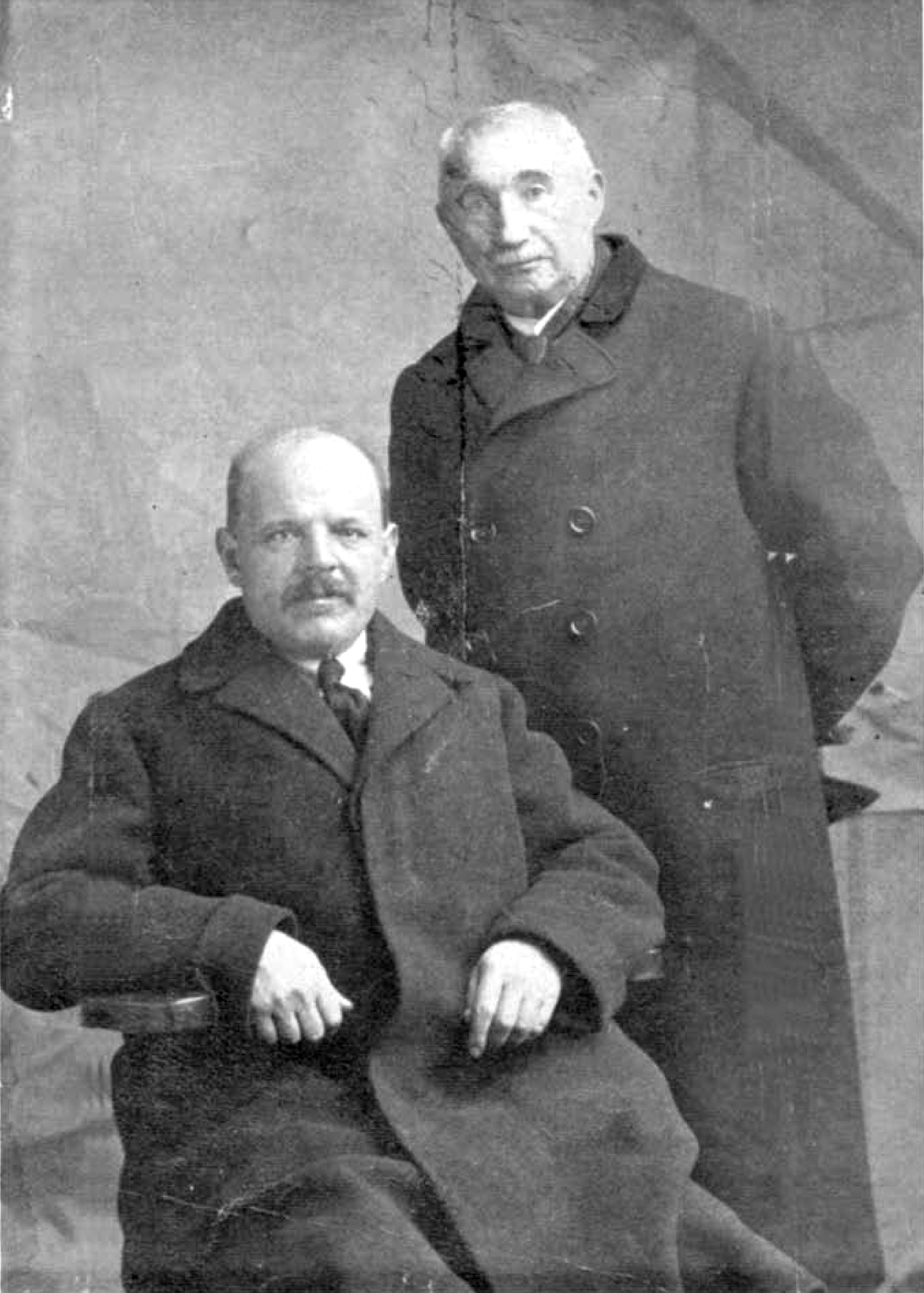 Shay Ish Hurwitz (standing) with Bialik. Berlin 1920..